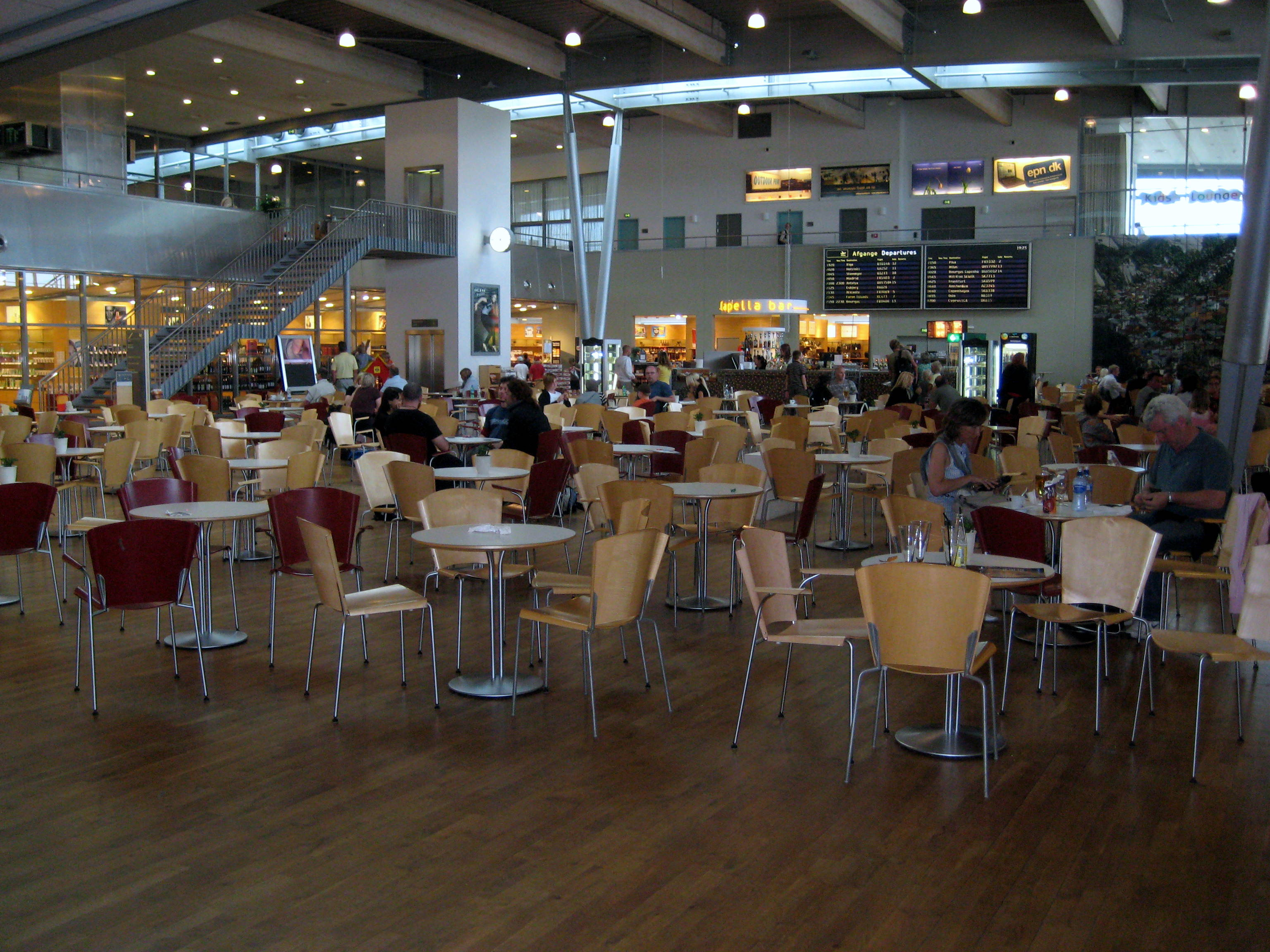 Capella Bar at Billund Airport level 2, Billund, Denmark.